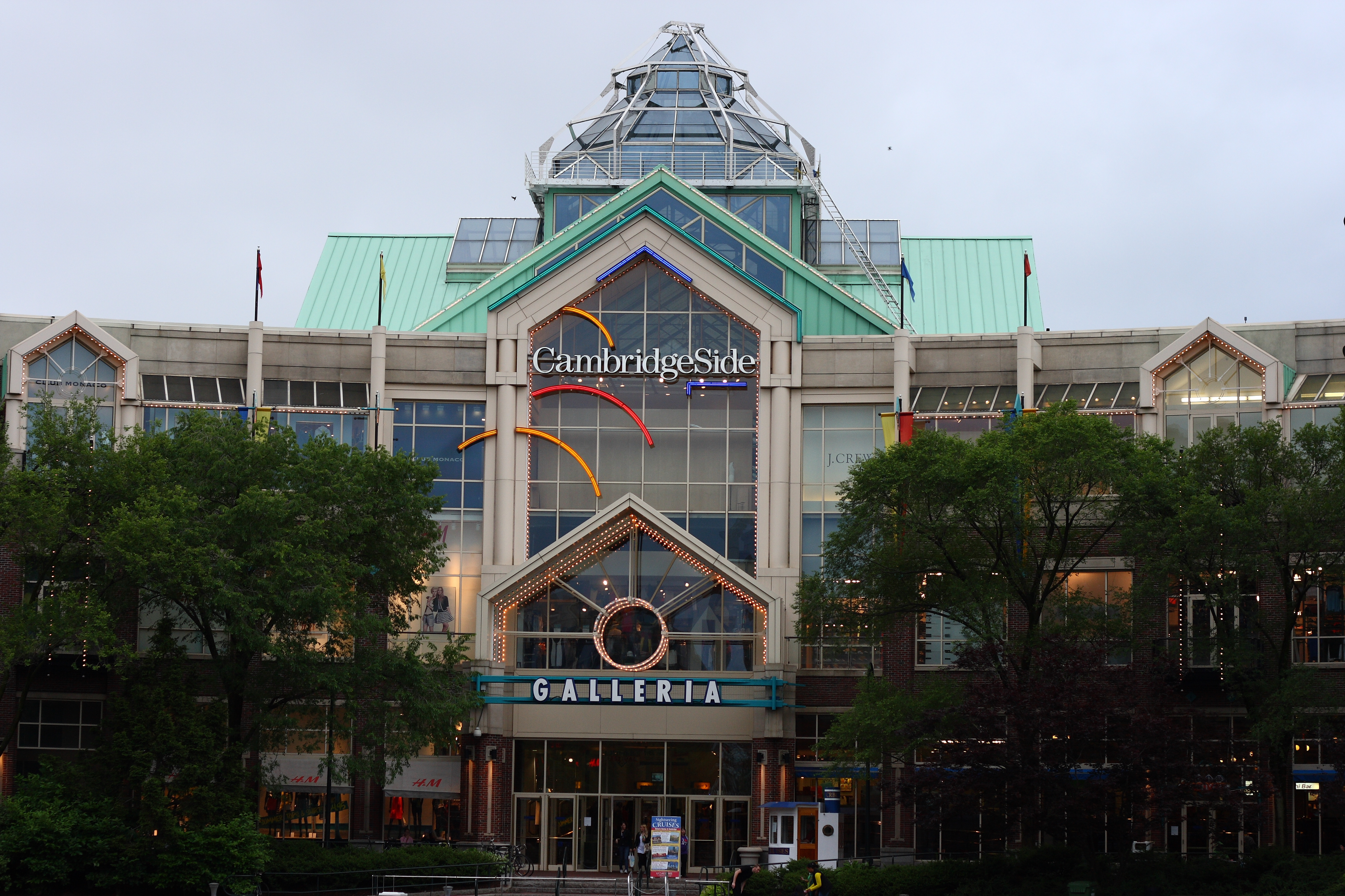 CambridgeSide Galleria